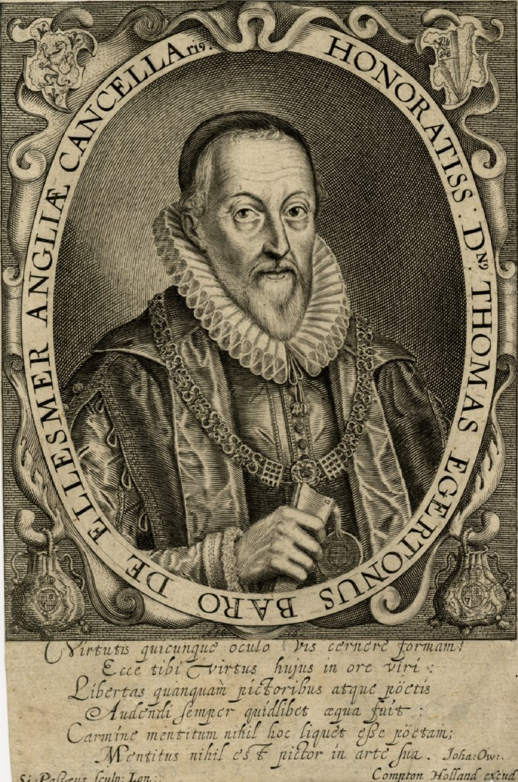 "Honoratiss: Dn Thomas Egertonus Baro de Ellesmere," portrait of Thomas Egerton, 1st Viscount Brackley, engraving, by the British engraver Simon van de Passe. 171 mm x 112 mm. Courtesy of the British Museum, London.